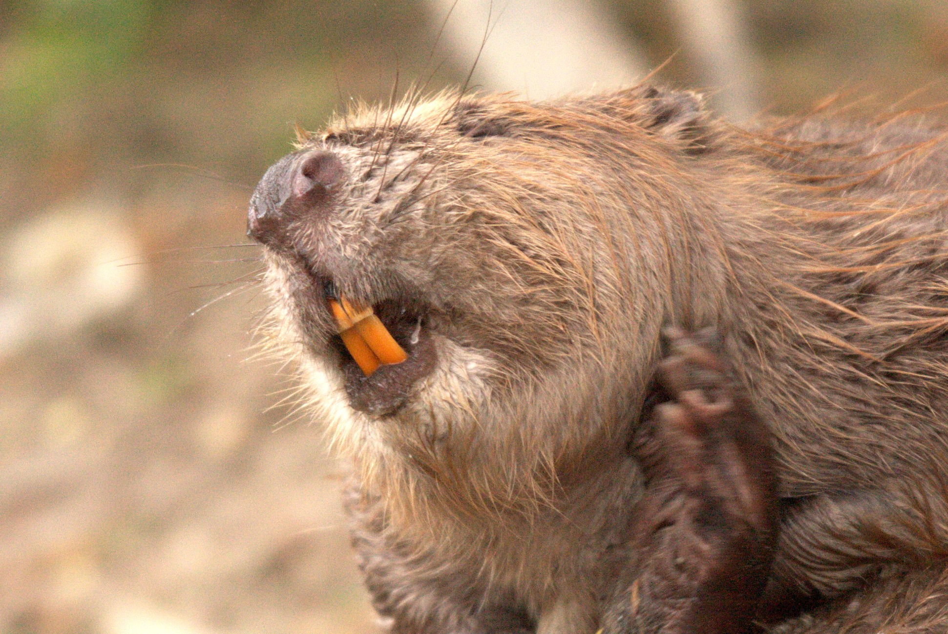 Beaver Castor fiber